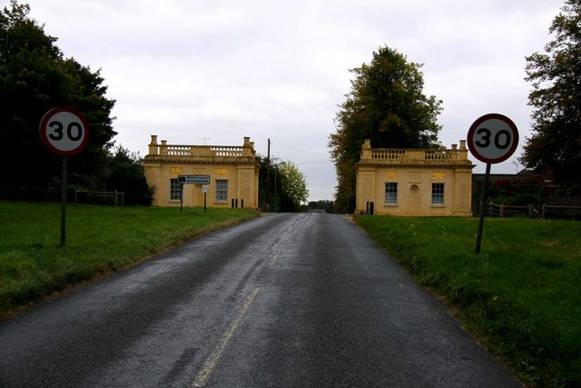 Gatehouses on Stowe Avenue